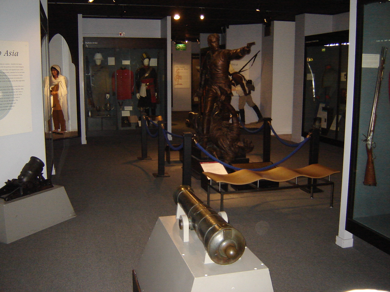 internal photographs of the national army museum